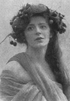 May Leslie Stuart, from a 1906 publication. A young white woman with long dark hair, wearing loose voluminous robes; she has a wreath of leaves and fruit in her hair.